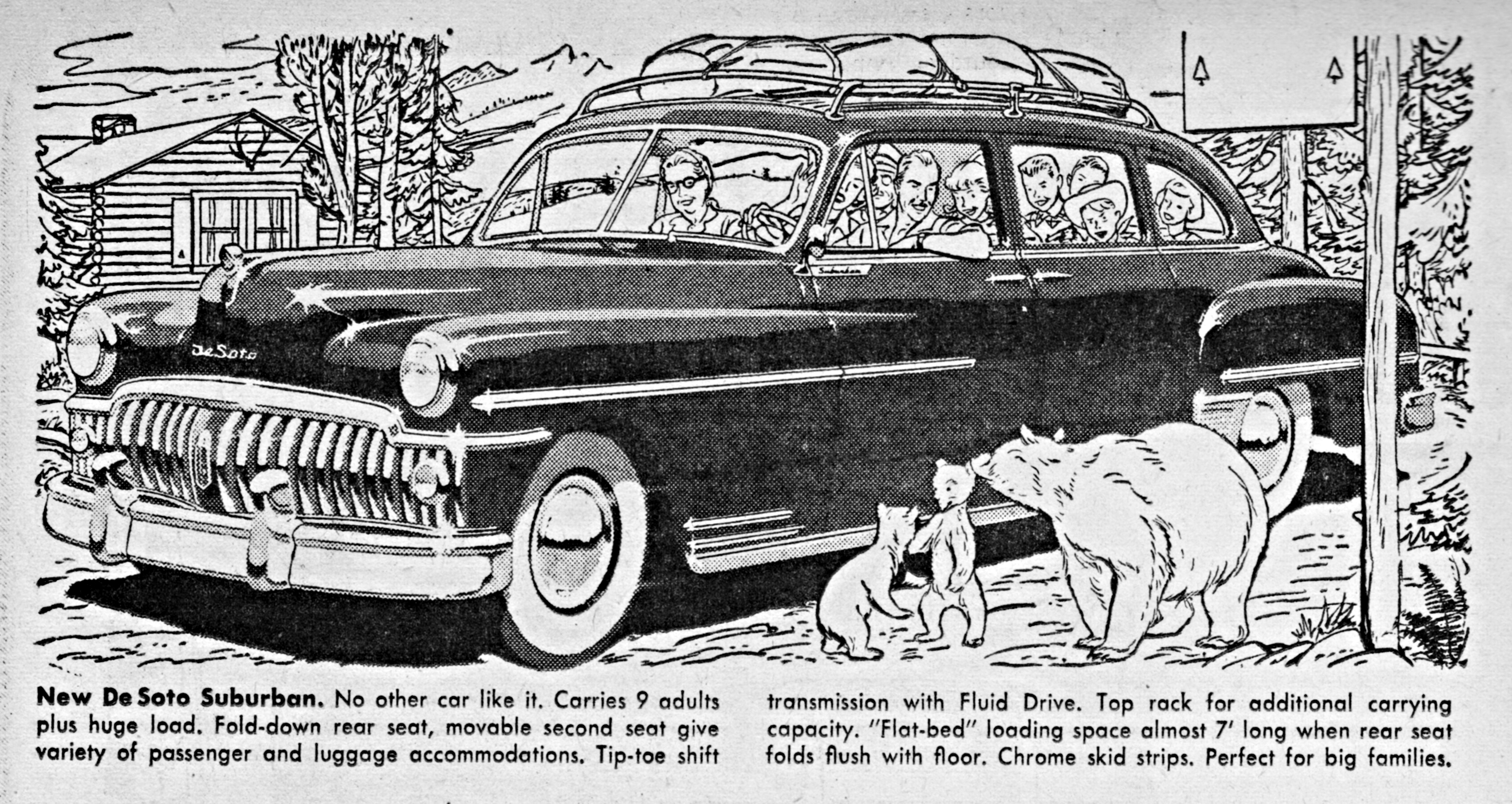 From a June 18, 1950 Chrysler Corporation newspaper ad promoting "The greatest variety of all-purpose cars today".